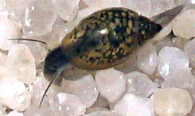 This left coiled snail is from the Physidae family, Physella acuta or Physella heterostropha Apparently some authors see them as the same species, others don't. Physa acuta is another name that has been used. See here for links about this nomenclature. This specimen was found in a pond in Munich, Germany, in June 2007. The shell is about 1 cm long.